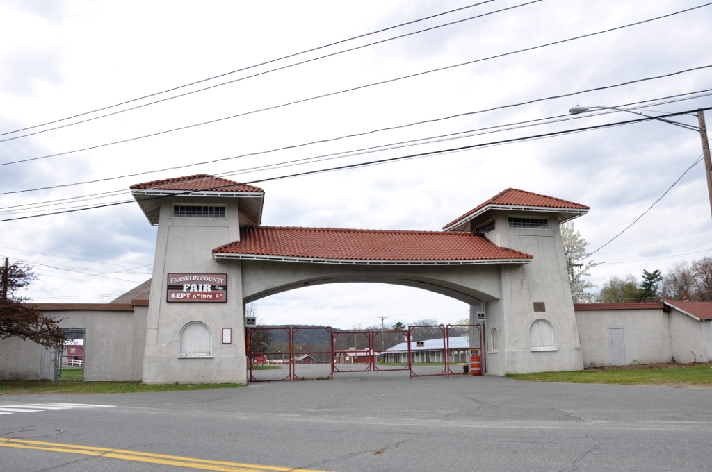 The gates of the Franklin County Fairgrounds in Greenfield, Massachusetts.